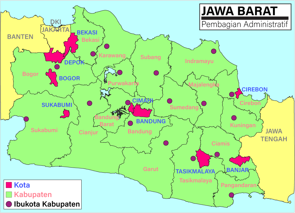 West Java province, Indonesia